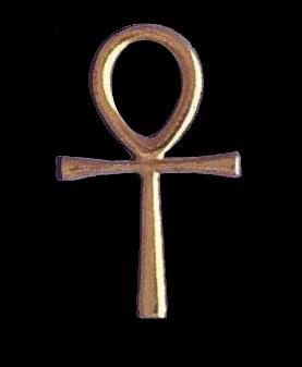 an Ankh